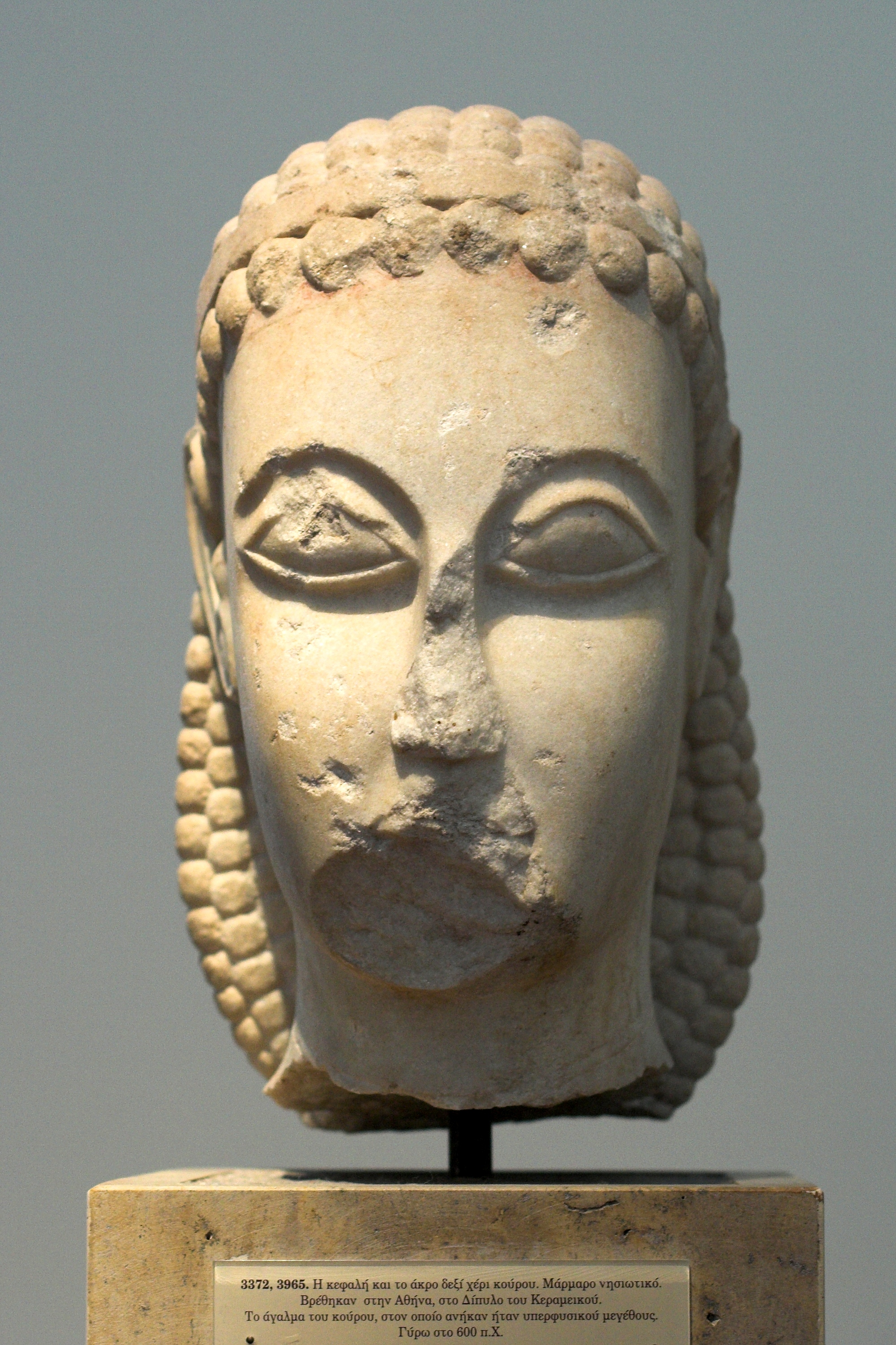 The head of a large Kouros, marble islandic, circa 600 BC He was standing at the Diptylian gate at Kerameikos in Athens. (Do they found hand = N 3965th) National Archaeological Museum in Athens N 3372.